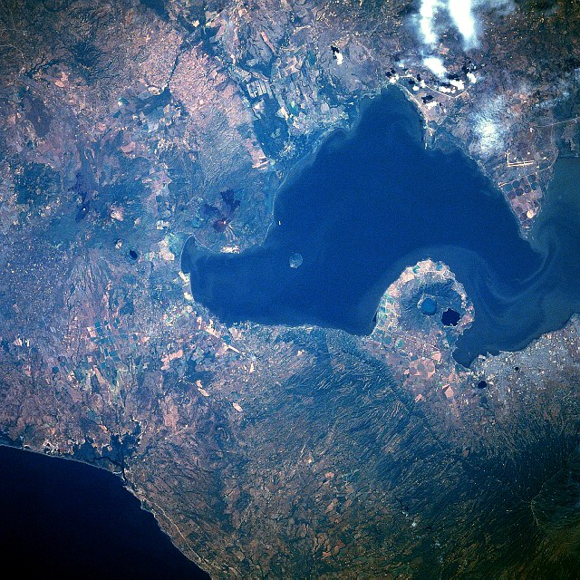 Lake Managua, Nicaragua. The second largest freshwater lake in Central America, Lake Managua can be seen in this west-southwest-looking view. Located in a rift valley, Lake Managua is 34 miles (56 km) long and 15 miles (24 km) wide. Lake Nicaragua is drained by the San Juan River, which flows east-southeast through a rift valley and empties into the Caribbean Sea. Also visible in this view are a number of volcanoes and volcano craters. This line of young volcanoes lie about 47 miles (75 km) inland from the Pacific Ocean (upper left) and are just to the west of a large coastal fracture or structural rift. The soils around the volcanoes are very fertile, and numerous agricultural field patterns are discernible scattered throughout the image. Just to the left of the bottom center of the image is the capital city of Managua, the industrial and commercial center of the country. The climate of the city is normally very hot and sultry. The city has been prone to many destructive earthquakes during its history, the last one occurring December 23, 1972 when Managua was almost completely destroyed and more than 10000 lives were lost.